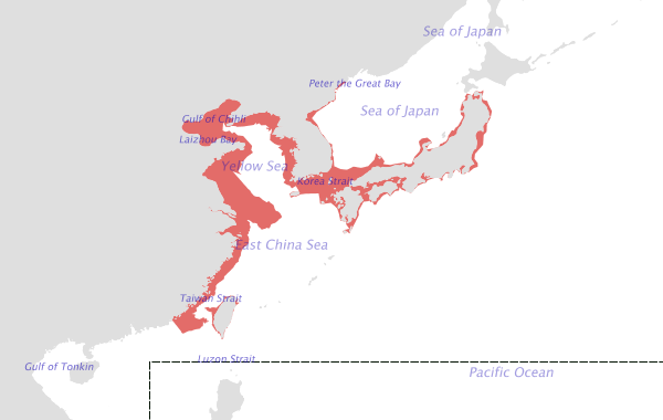 heimkynni